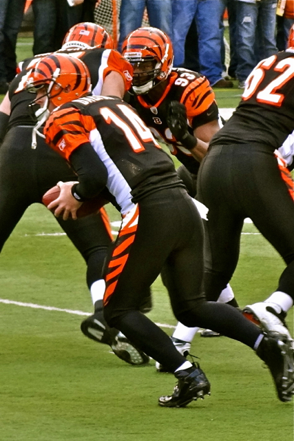 QB Andy Dalton at the January 1, 2012 Cincinnati Bengals game versus the Baltimore Ravens.